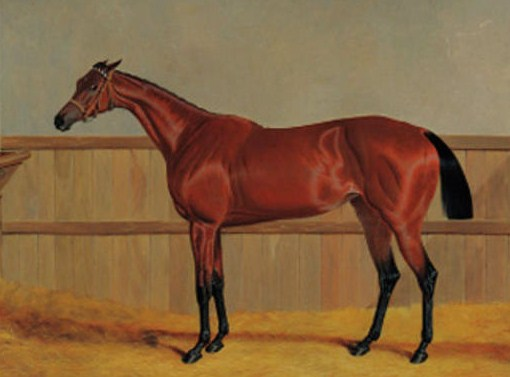 Painting of Matilda, British racehorse, by John Frederick Herring, Sr. (1795-1865). Artist dead for 148 years.